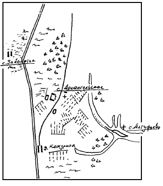 Plan of Arkhangelsk-Tyurikova in 1763.